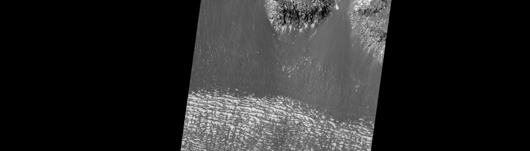 Close-up of lobate debris apron, as seen by hirise. Location is 39 S and 103 E.